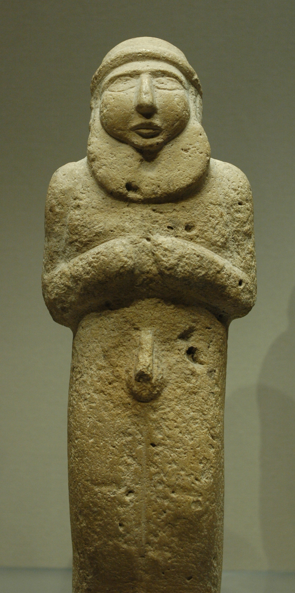 Statuette of a bearded man, maybe the king-priest. Mesopotamian art, Uruk period.